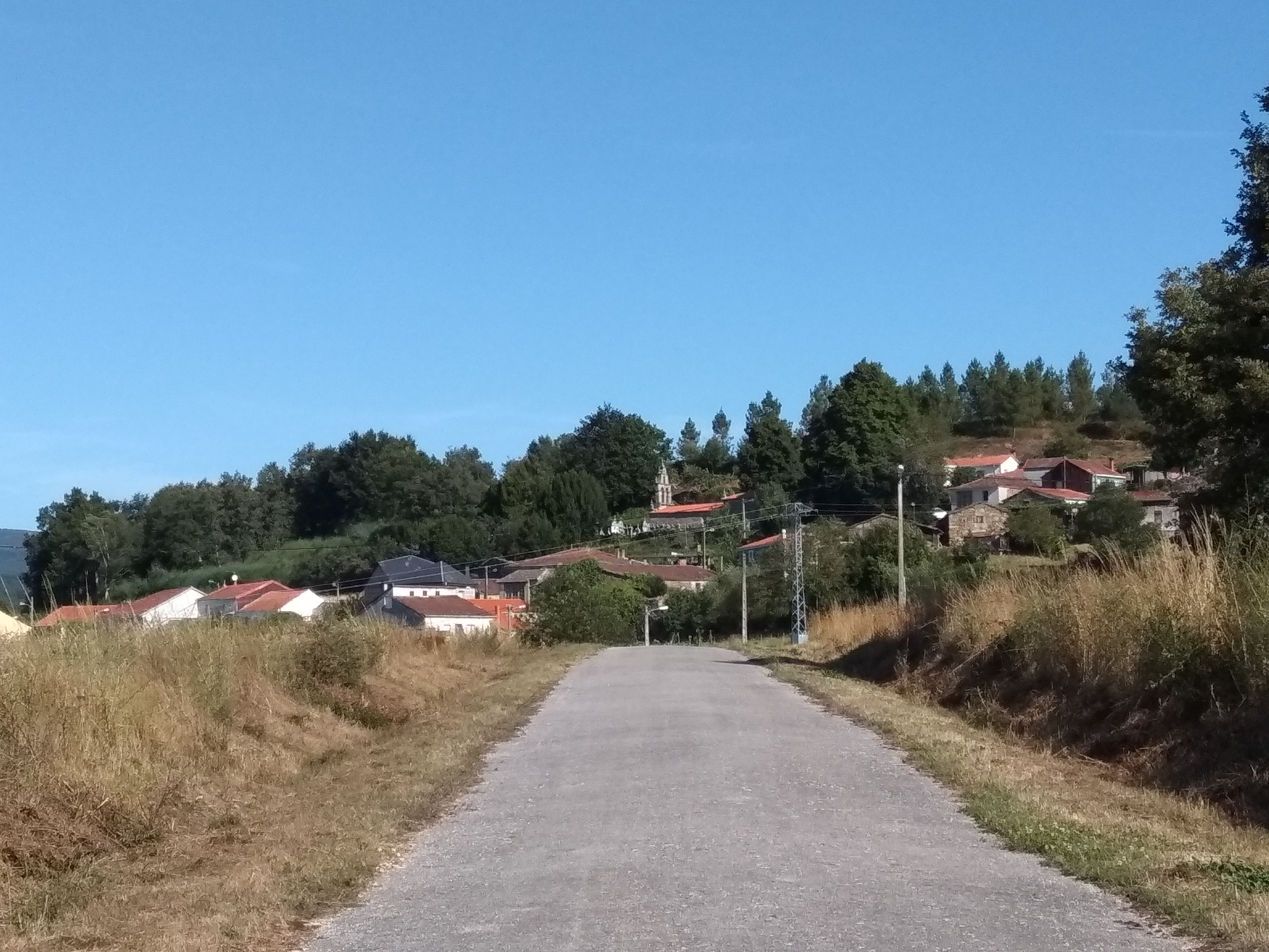 Views Nigueiroá